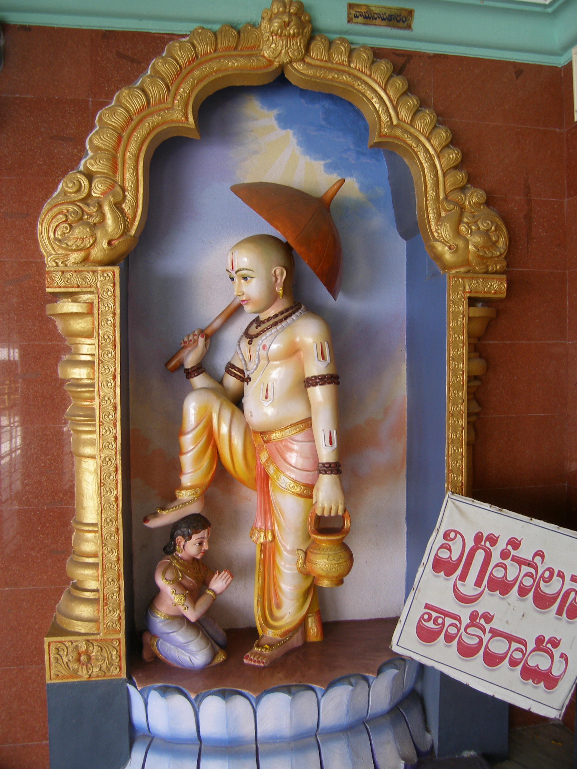 Vamanavatara of Lord Vishnu.